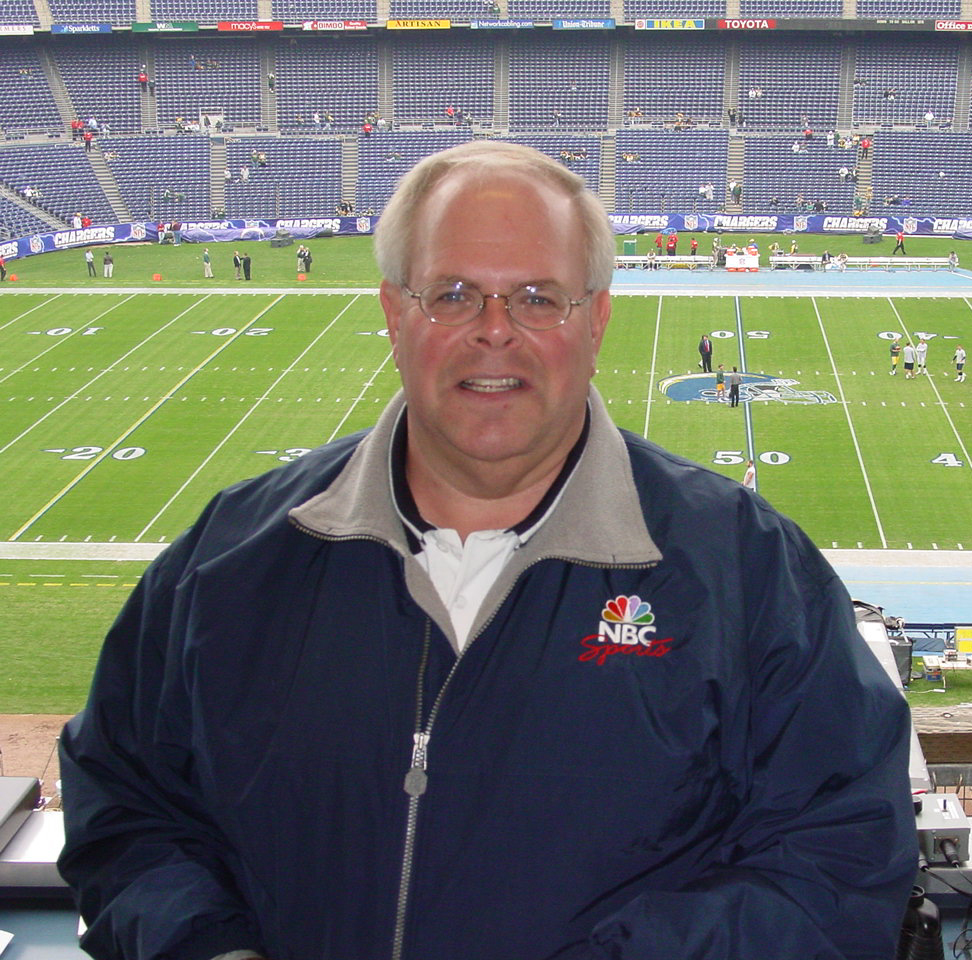 Eli Gold prior to an NFL broadcast in San Diego